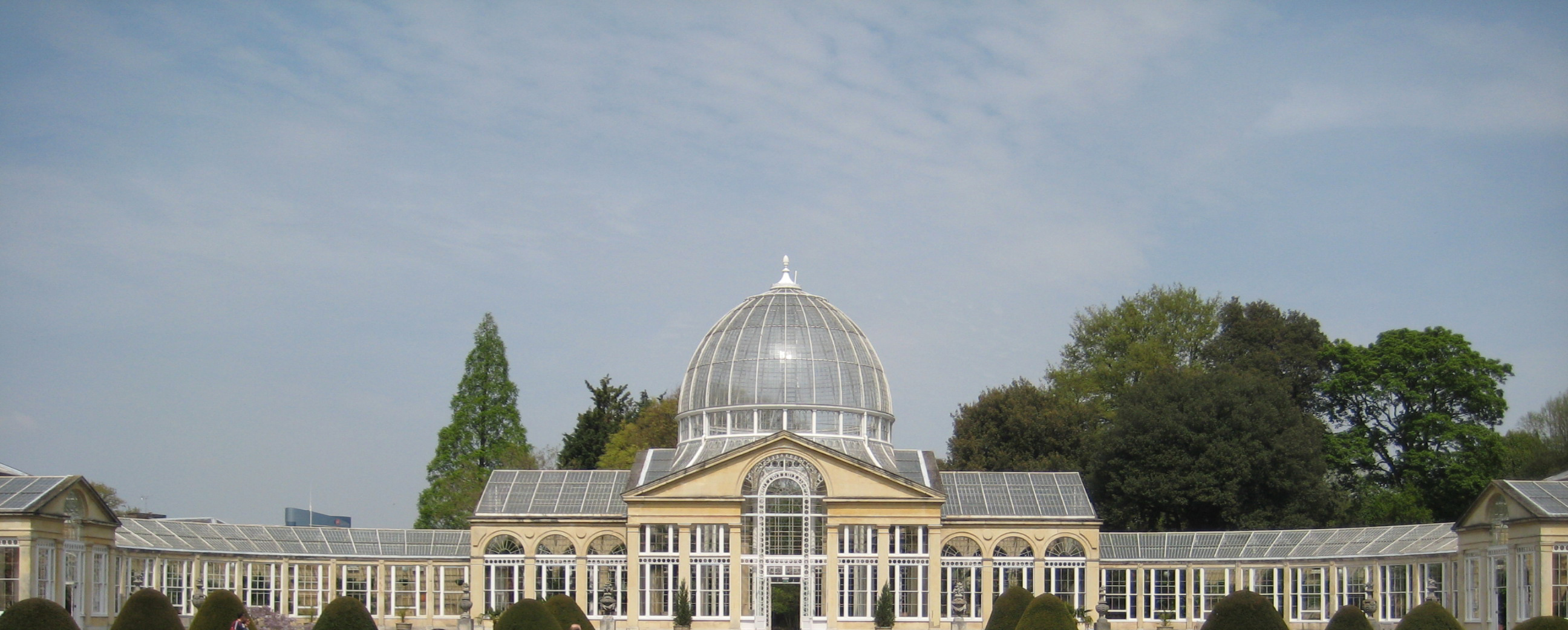 Front Widescreen shot of the Great conservatory at Syon Park in West London, England. photo taken by Ed Sexton